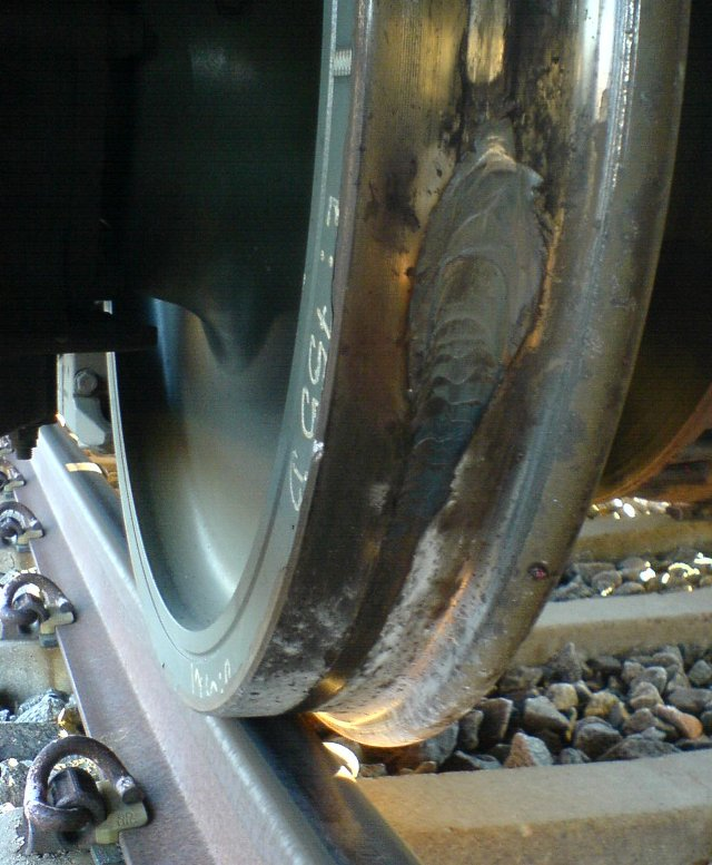 Damaged wheel from a railway vehicle